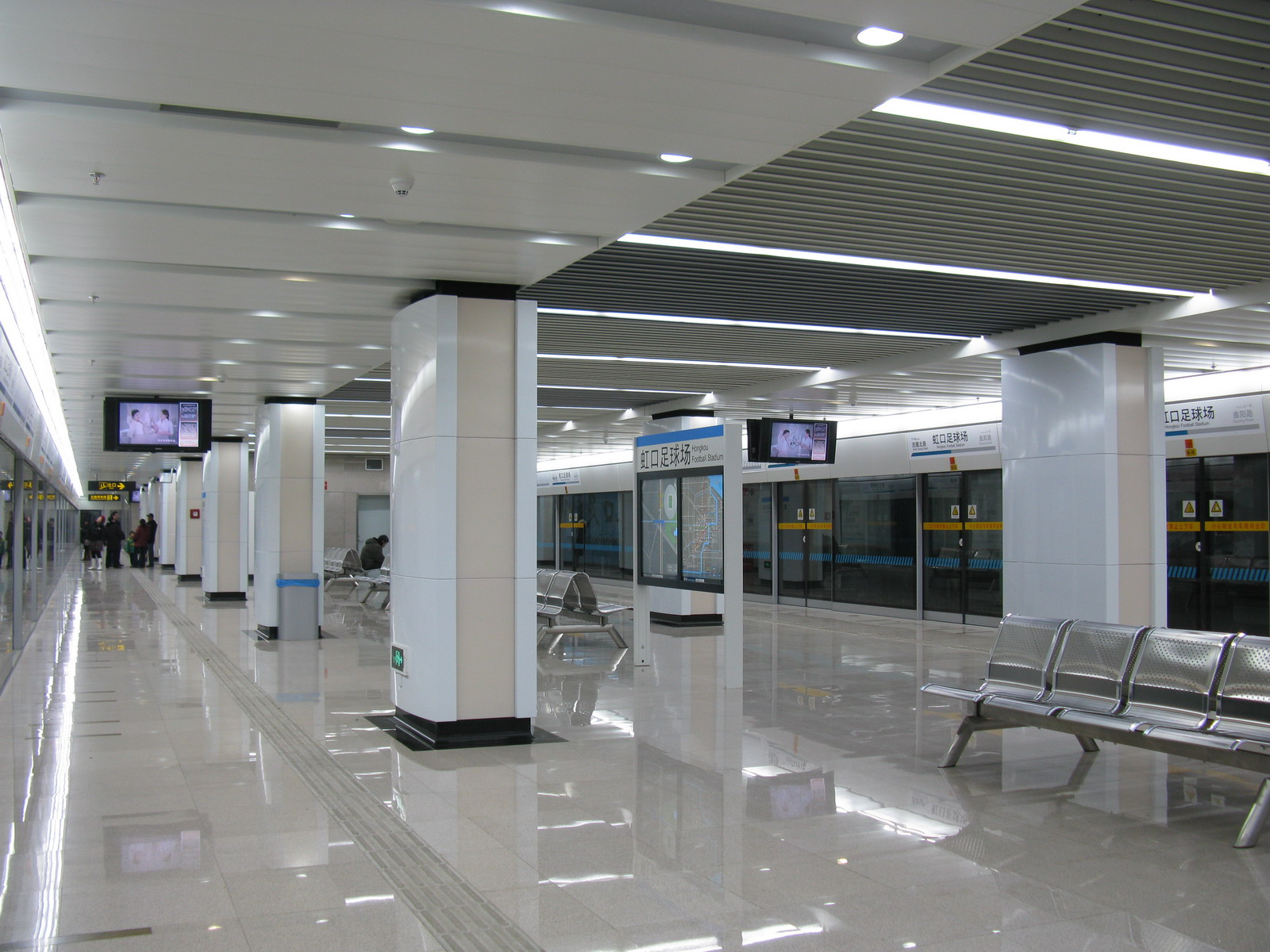 虹口足球場站-8號線月台 Line 8 Platform of Hongkou Football Stadium Station